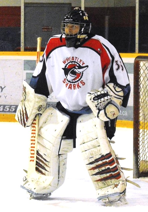 These images of GLJHL action are taken by Devan Mighton.